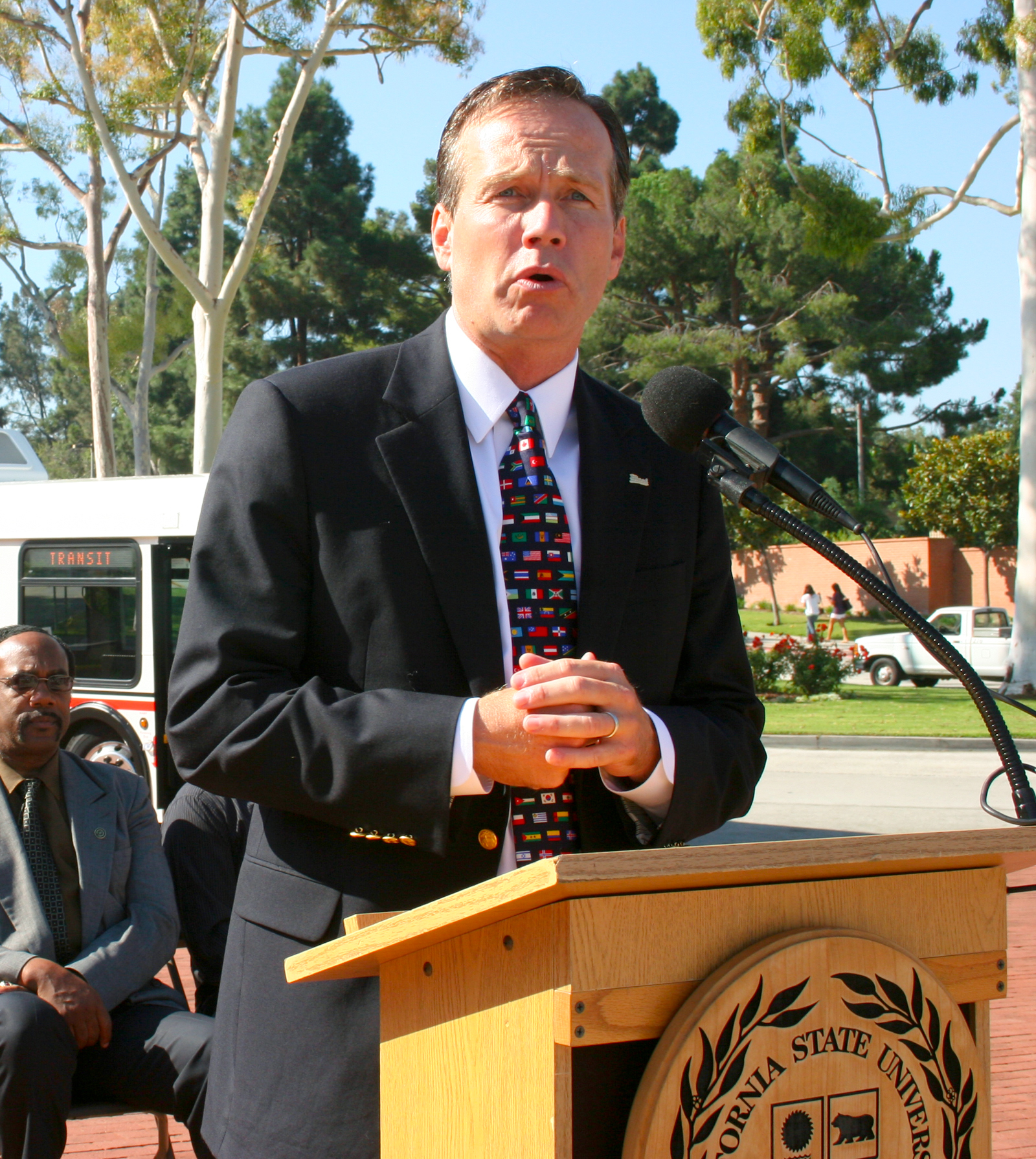 F. King Alexander speaks at the U-Pass press conference.